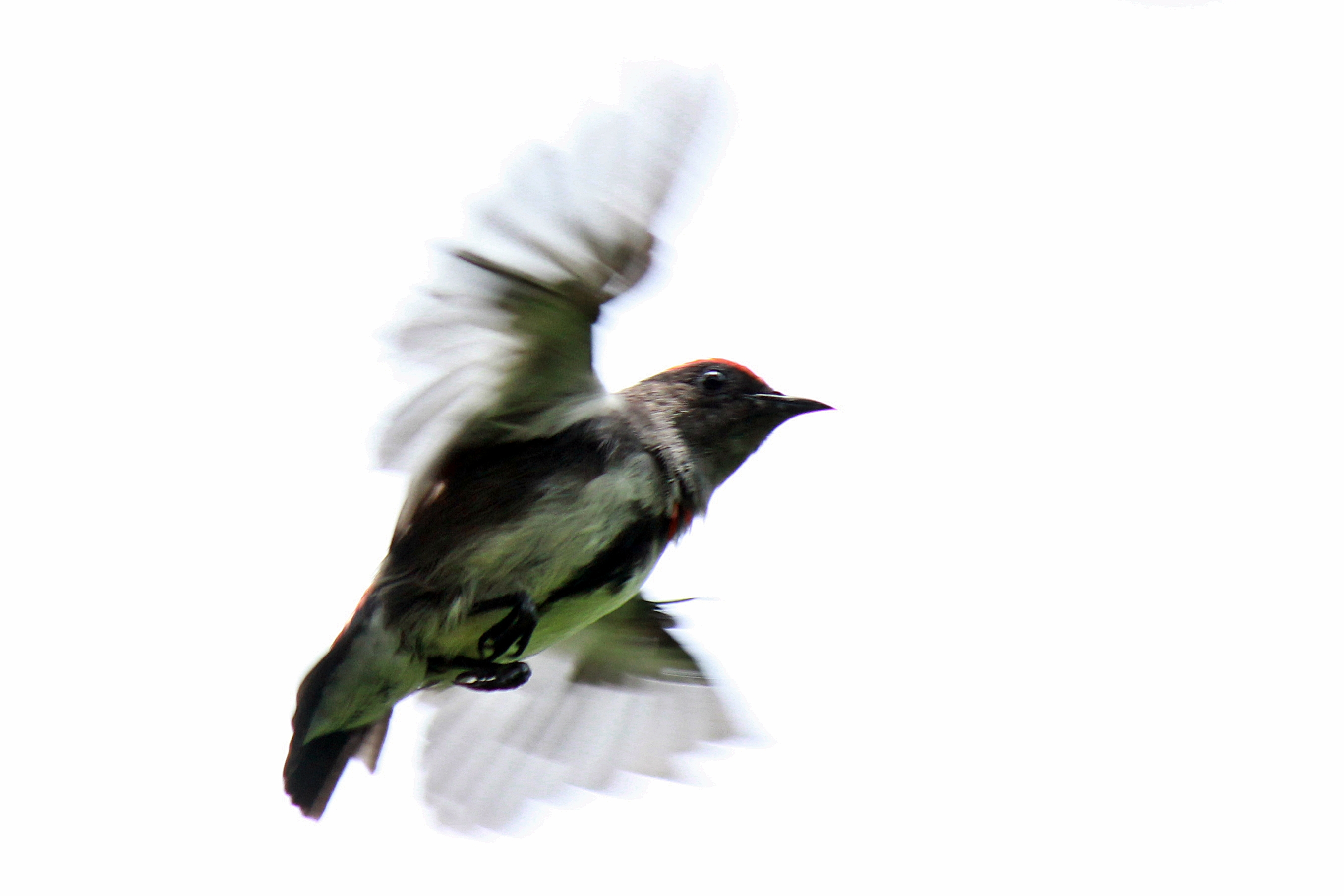 Crimson-crowned Flowerpecker (Dicaeum nehrkorni) in Mount Mahawu, North Sulawesi, IndonesiaBahasa Indonesia: Cabai Sulawesi (Dicaeum nehrkorni) di Gunung Mahawu Sulawesi Utara